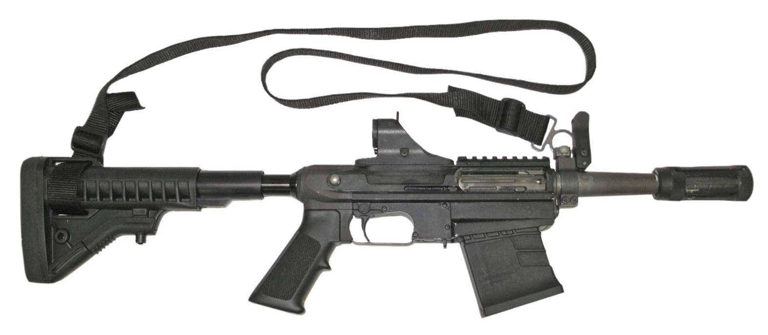 The M26 Modular Accessory Shotgun System (MASS) provides Soldiers with a 12-gauge shotgun accessory attachment with lethal, less-than-lethal and door-breaching capabilities.